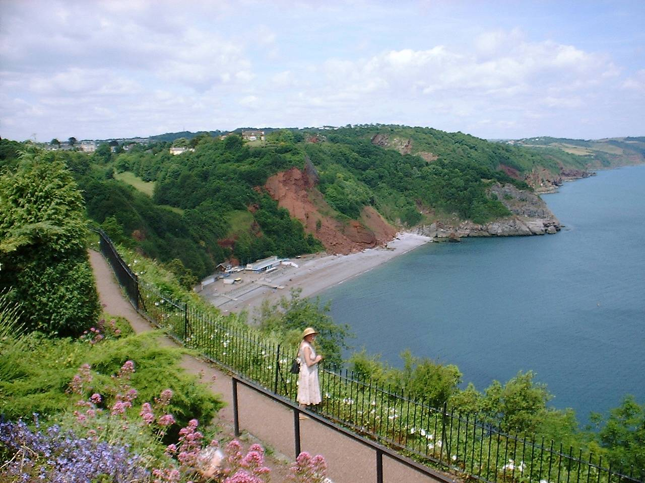 Oddicombe Beach, Devon, from Babbacombe Downs. Created by User:Tearlach, and released into public domain.